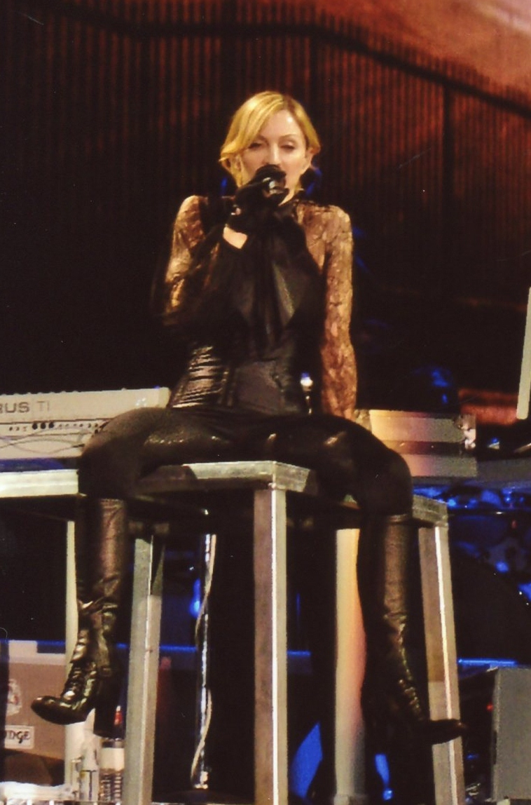 Madonna performing "Like a Virgin" during her concert at the Wembley Arena in London, as part of her Confessions Tour on August 12, 2006.